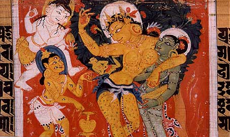 Painting of the miraculous birth of Gautama Buddha, out of the side of Queen Mahamaya. Sanskrit Astasahasrika Prajnaparamita Sutra manuscript written in the Ranjana script. Nalanda, Bihar, India.